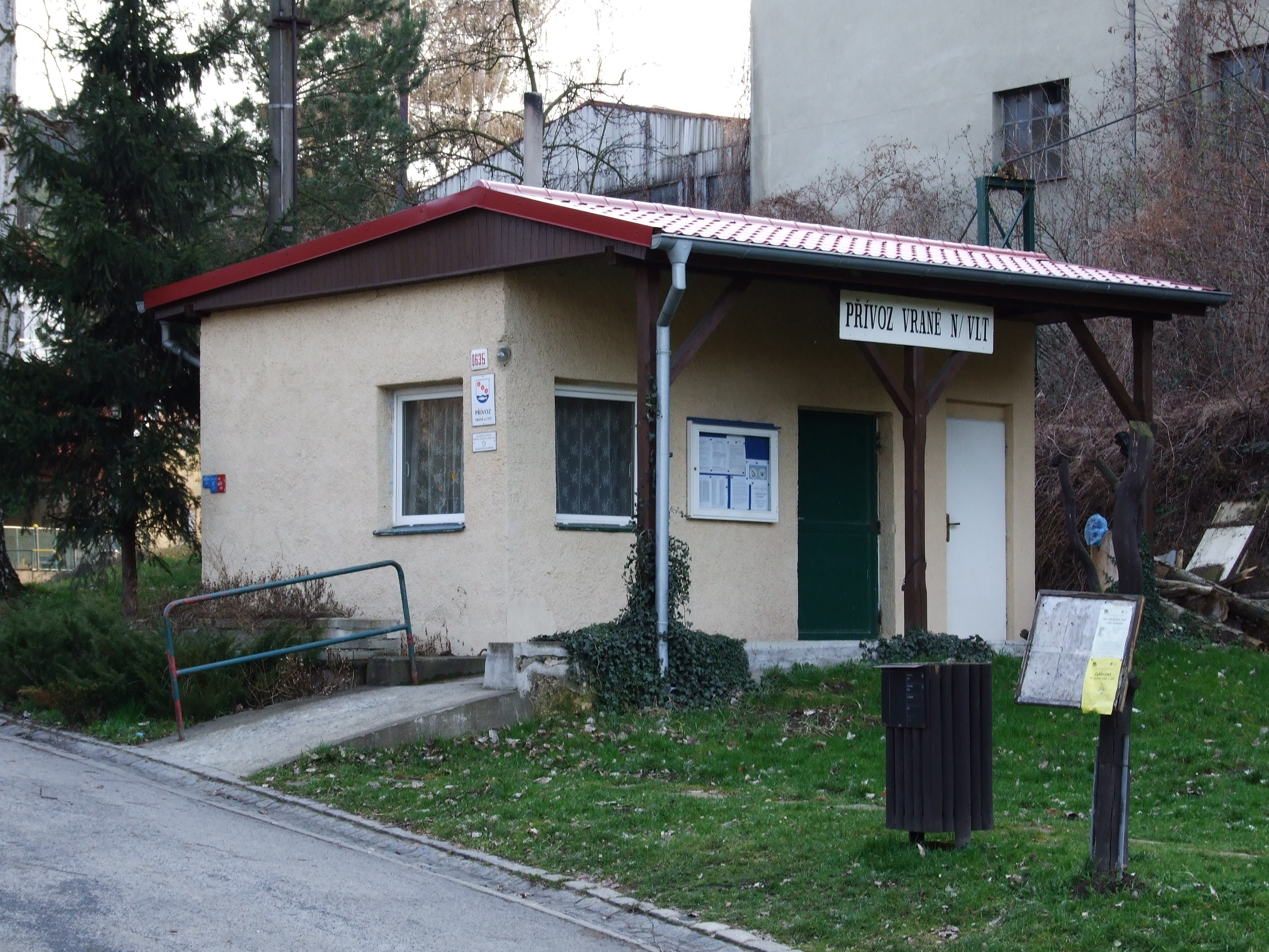 Vrané nad Vltavou village, Central Bohemian Region, CZ